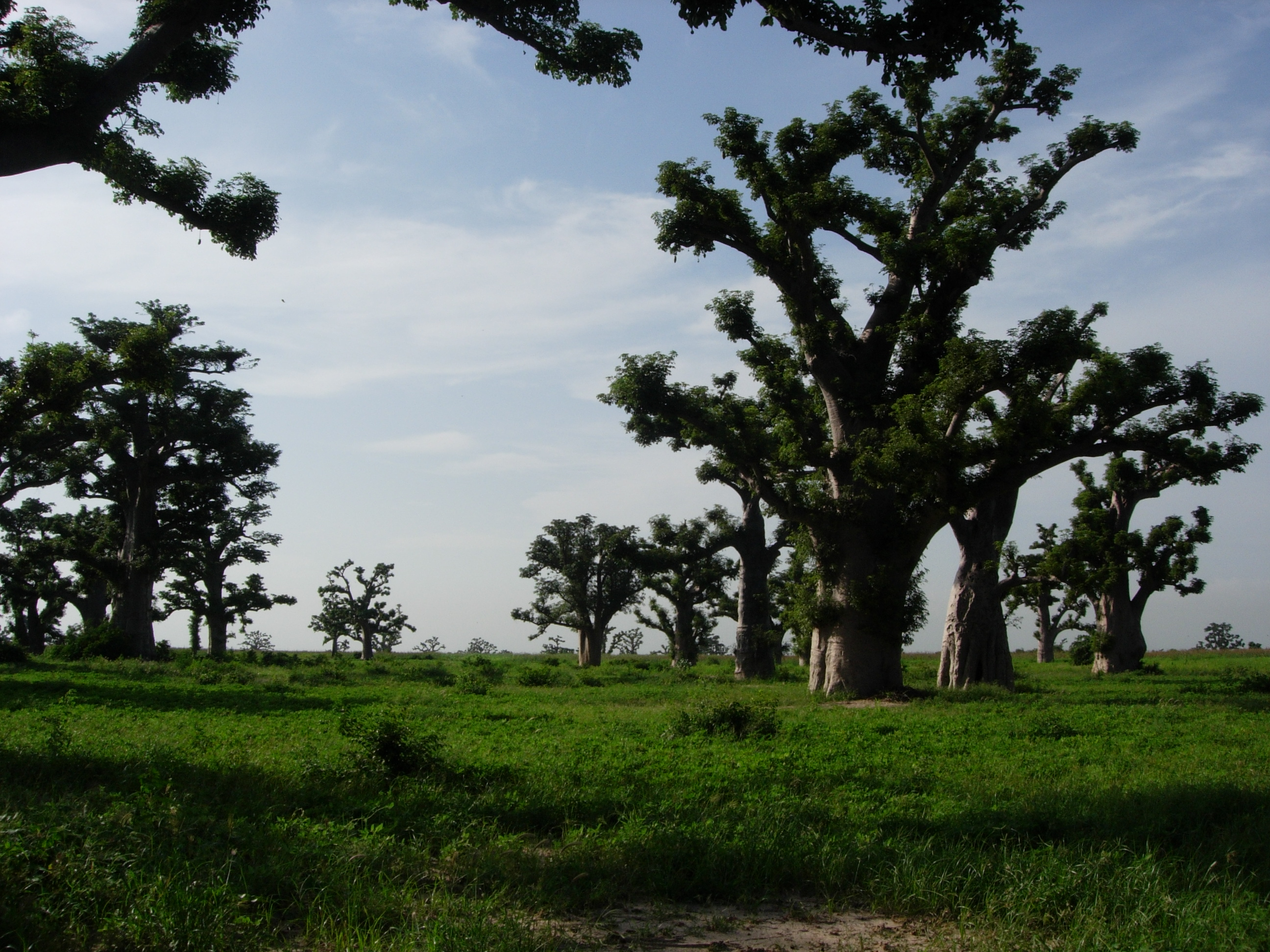 Baobabs forest where we took a rest after a hike.